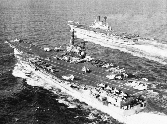 The U.S. Navy aircraft carrier USS Forrestal (CVA-59) and the Royal Navy aircraft carrier HMS Ark Royal (R09) underway during cross-deck operations in the Mediterranean Sea. Forrestal, with assigned Carrier Air Wing 17 (CVW-17), was deployed to the Mediterranean Sea from 22 September 1972 to 6 July 1973.